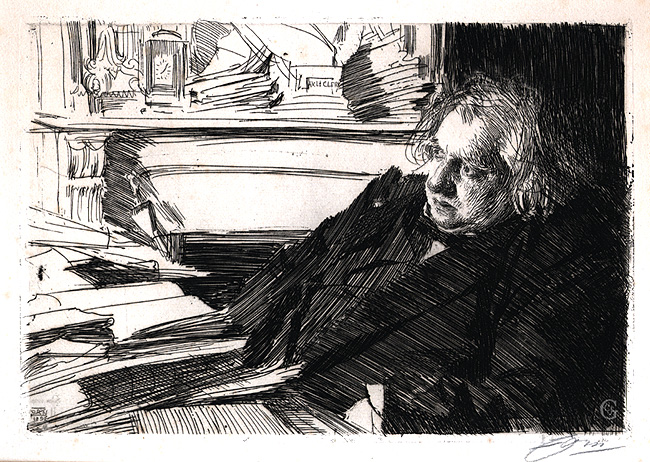 Portrait of the French philosopher and historian Renan (1823-1890), author of " La Vie de Jesus" and "Histoire du Peuple d'Israel", one of Anders Leonard Zorn's (Swedish, 1860-1920) major prints.